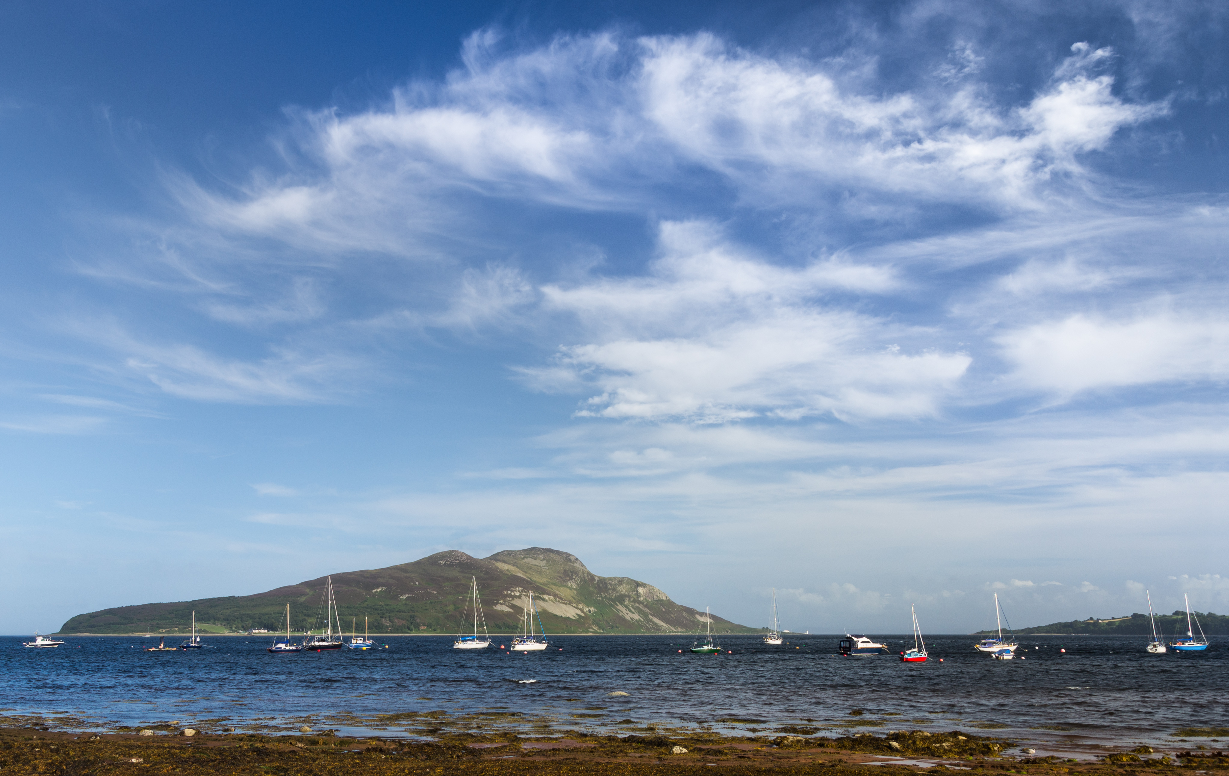 The Holy Isle sits in the middle of Lamlash bay, making it a safe natural harbour for yachts.